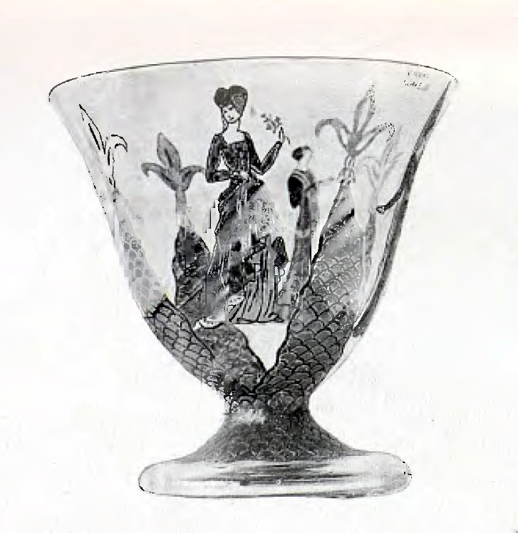 Glazed glass cup by Núria Solé. Magazine "Foment de les Arts Decoratives", 1921.